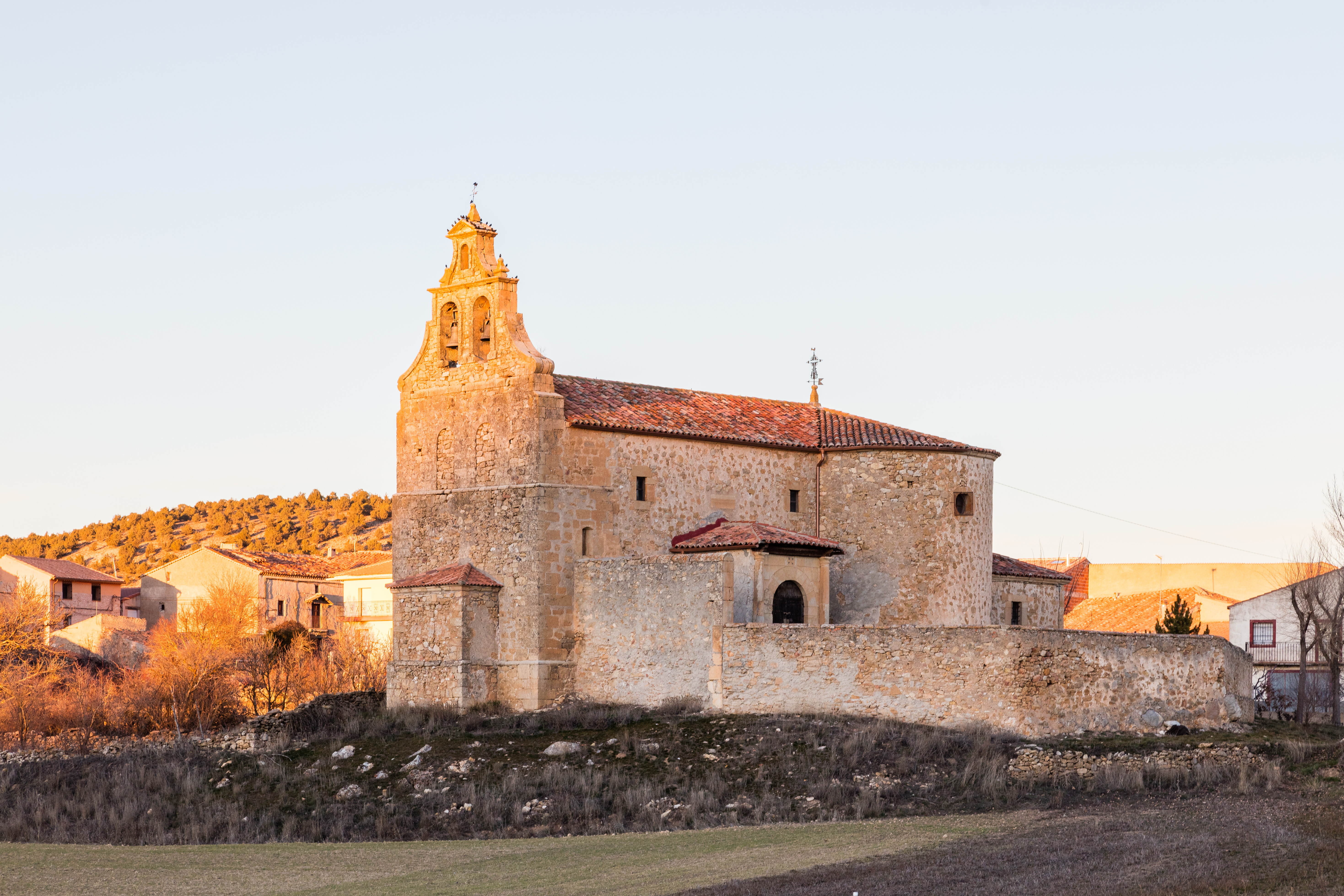 Church of St Miguel, Anchuela del Campo, Guadalajara, Spain